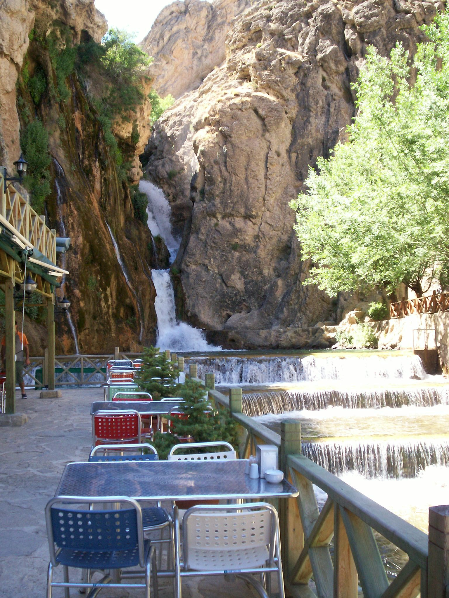 Gürpinar waterfall near Darende, Turkey